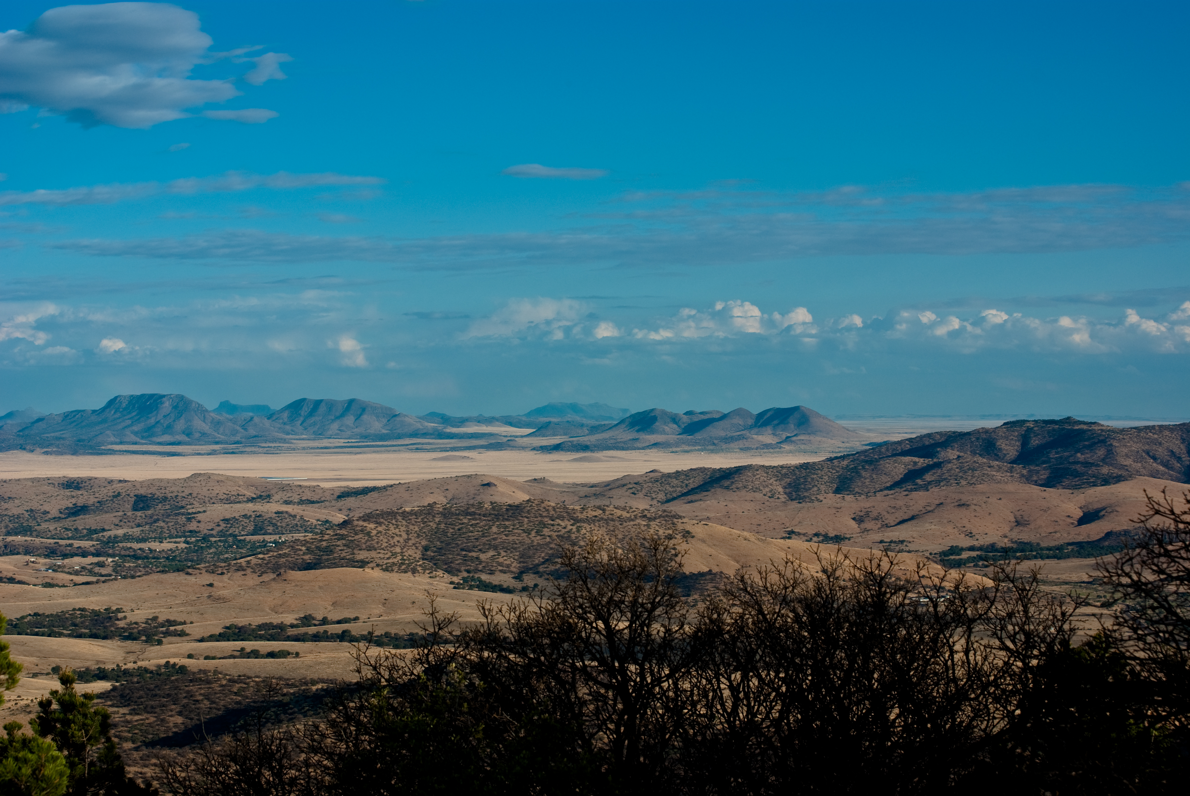 Davis Mountains, Texas from the McDonald Observatory